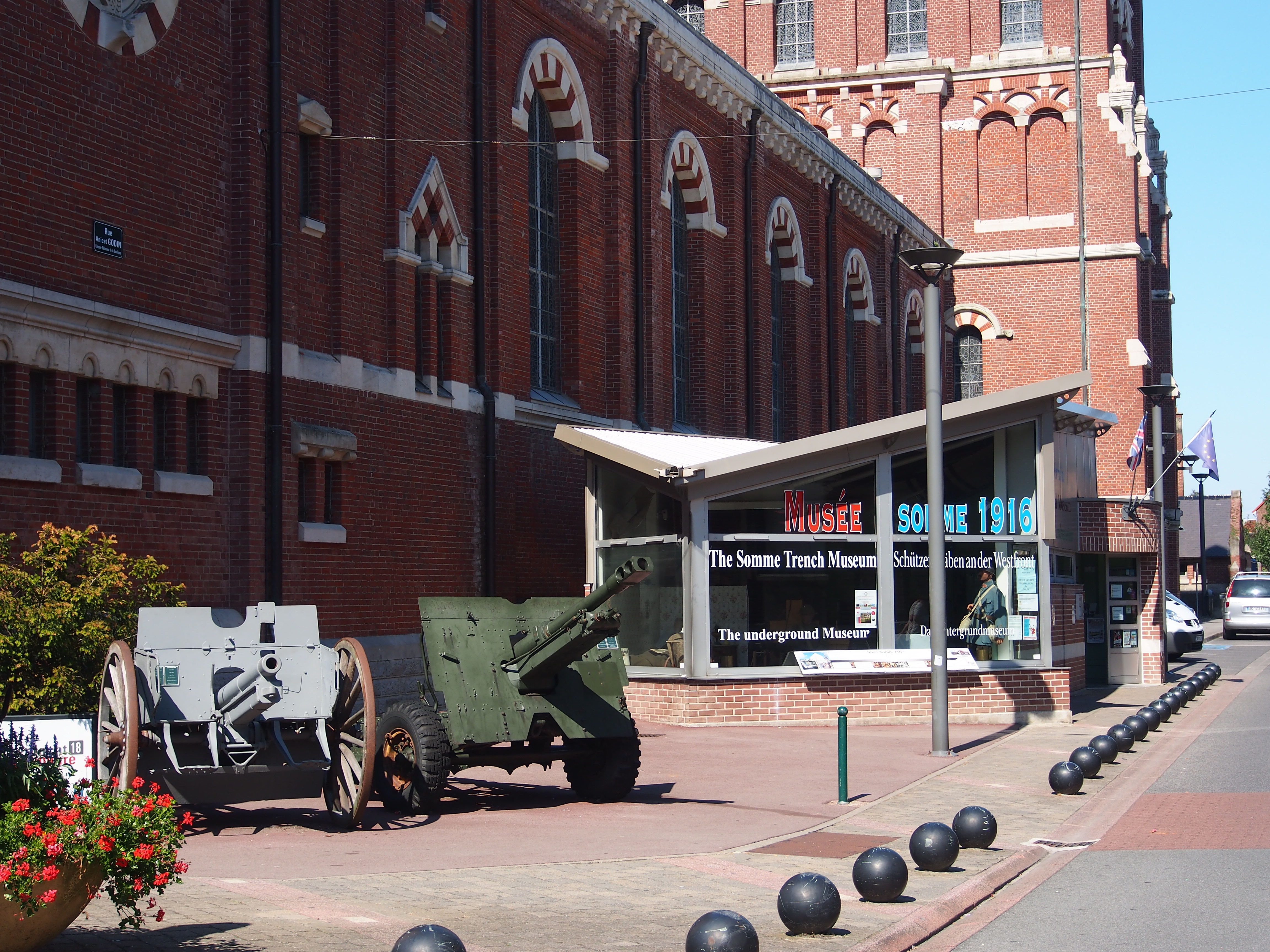 Photographed in the Musée Somme 1916 of Albert (Somme), France.